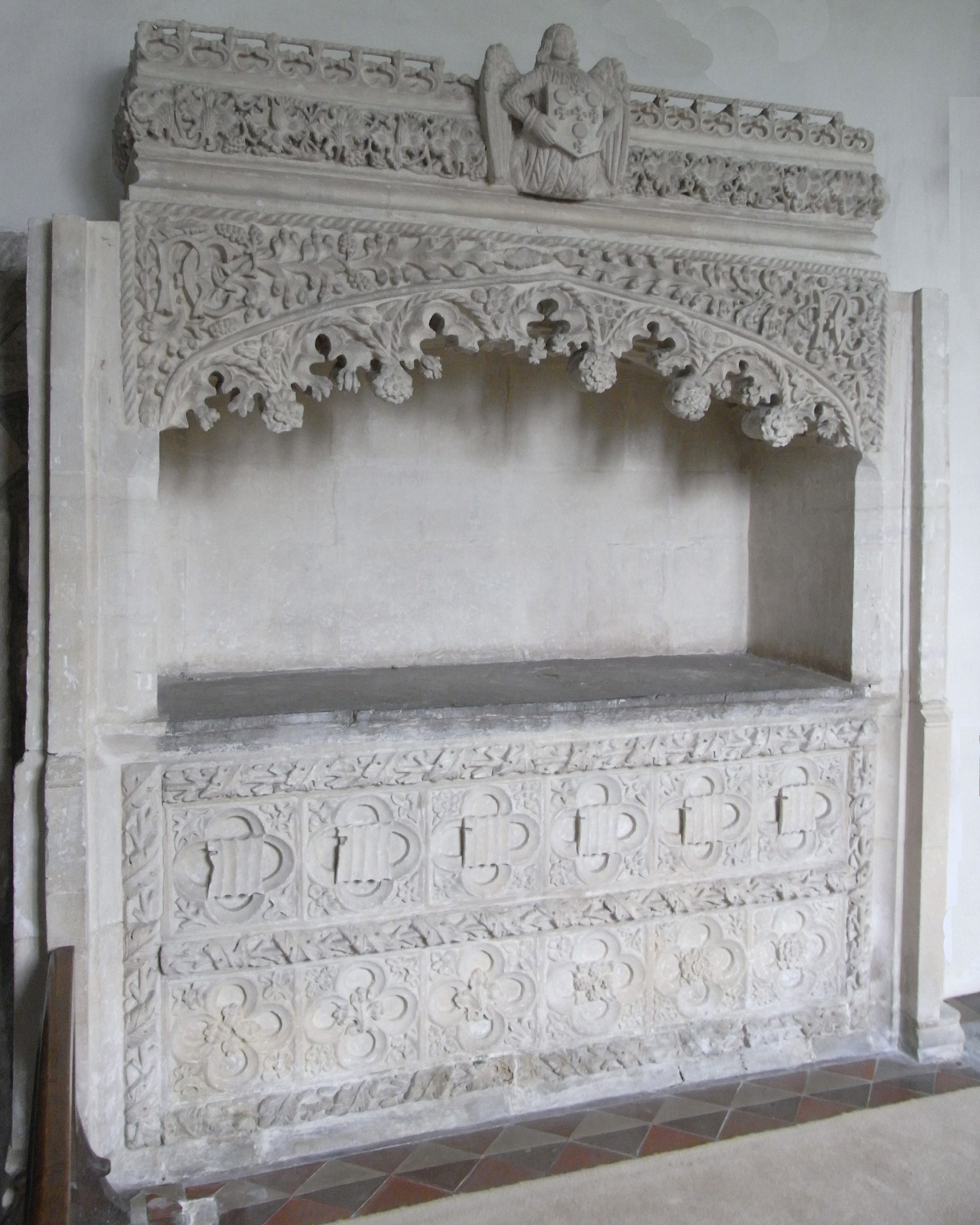 Easter Sepulchre monument to Richard Coffin (1456-1523) of Heanton Punchardon and Portledge, Alwington, Sheriff of Devon in 1510. North wall of chancel, Heanton Punchardon Church, North Devon (Pevsner, Nikolaus & Cherry, Bridget, The Buildings of England: Devon, London, 2004, p.477)